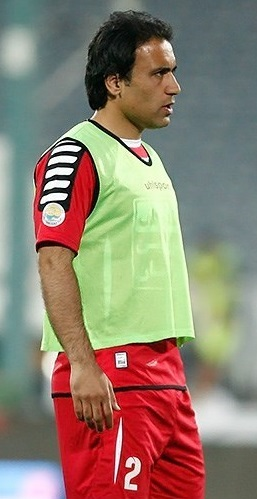 Persepolis Sepahan - 2013 Hazfi Cup Final